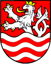 Coat of arms of Karlovy Vary city, Czech Republic